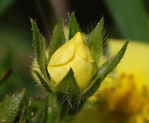 Hohes Fingerkraut (Potentilla recta)